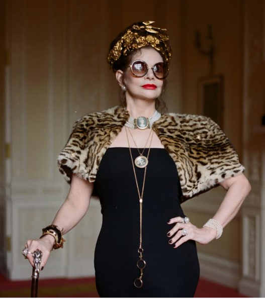 Portrait of Tyne O'Connell the author